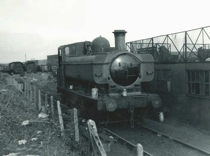 GWR Collett "57XX" Class 0-6-0PT No.9642 at Hay's Scrapyard, Bridgend, c. Summer 1965. This loco was purchased by Hayes after withdrawal by the WR and repainted in their own light green livery (including the chmney up to the cap!) for shunting in their yard. Scanned photograph taken with an Halina 35X Super camera.